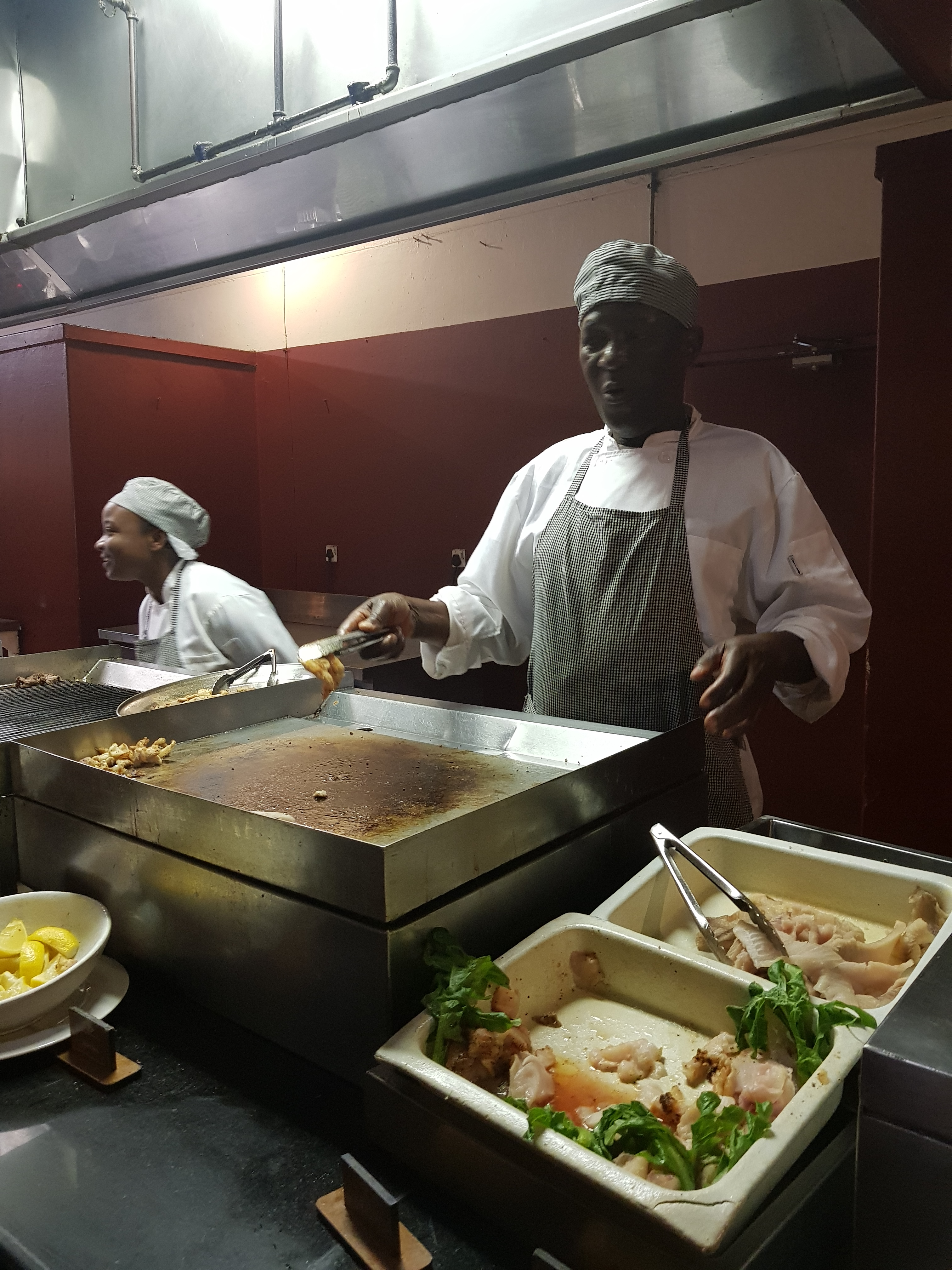 This is an image with the theme "Africa on the Move or Transport" from: Zimbabwe